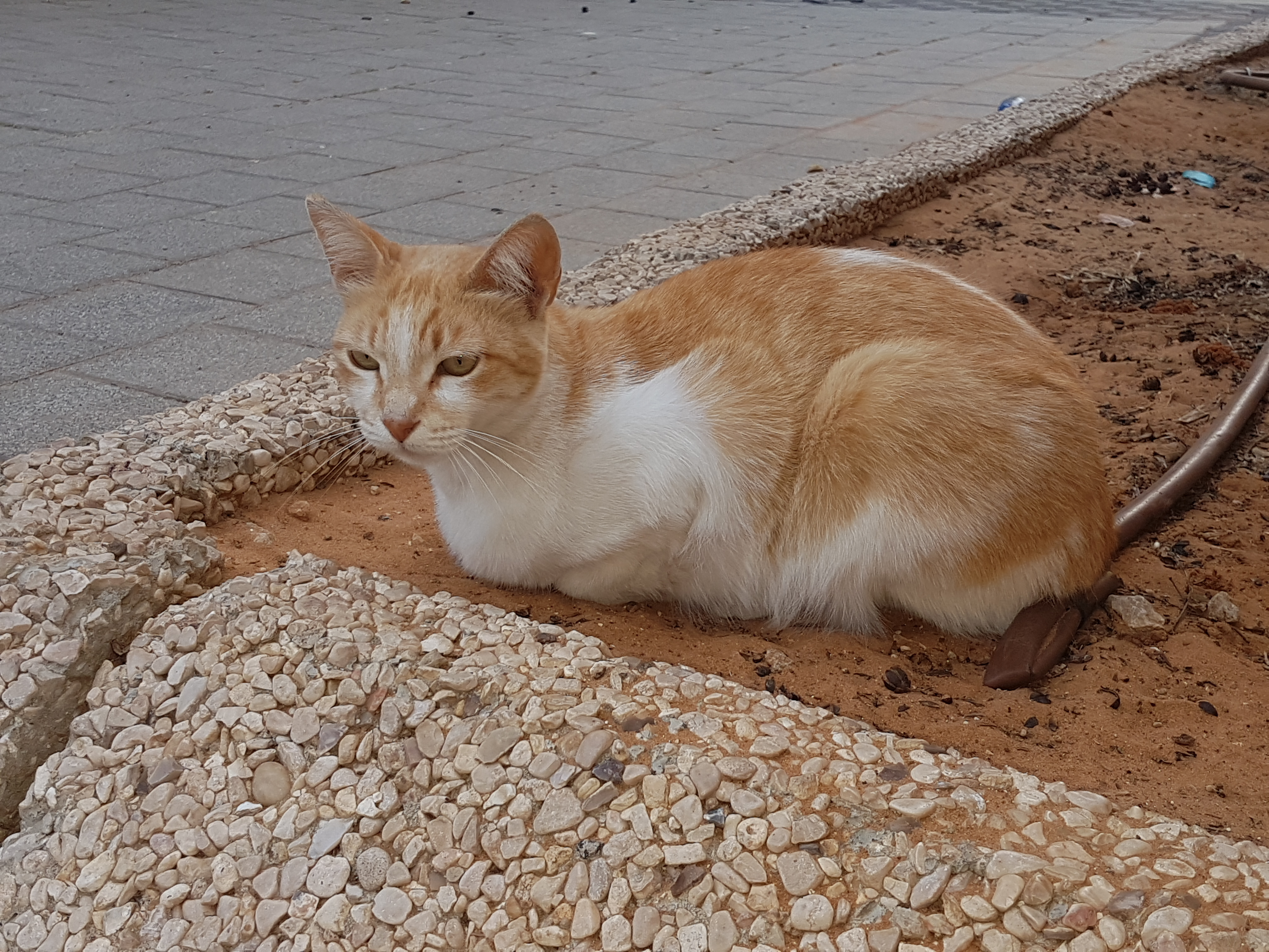 A red cat sitting in the sand.